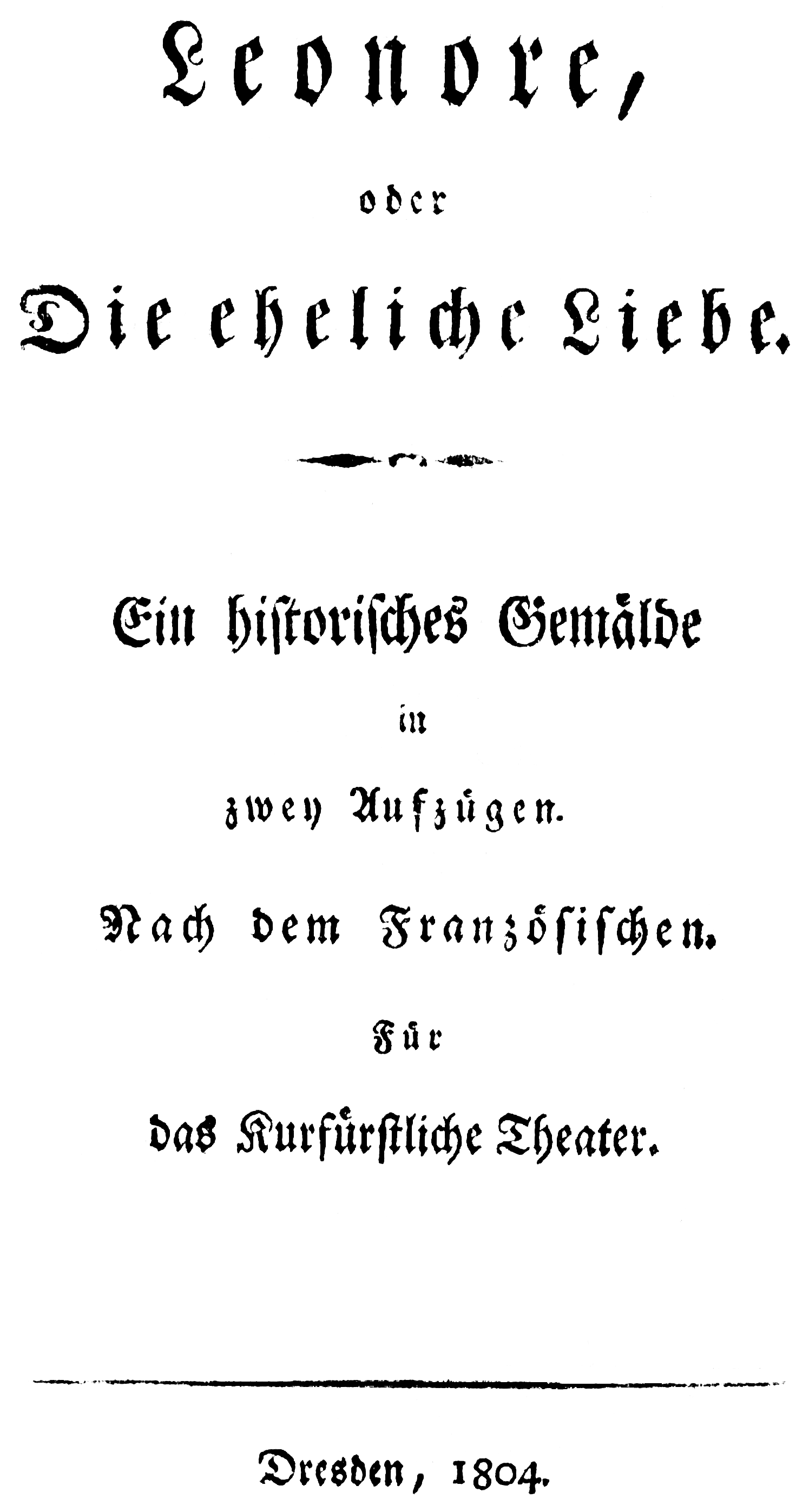 Paer - Leonora - german title page of the libretto - Dresden 1804